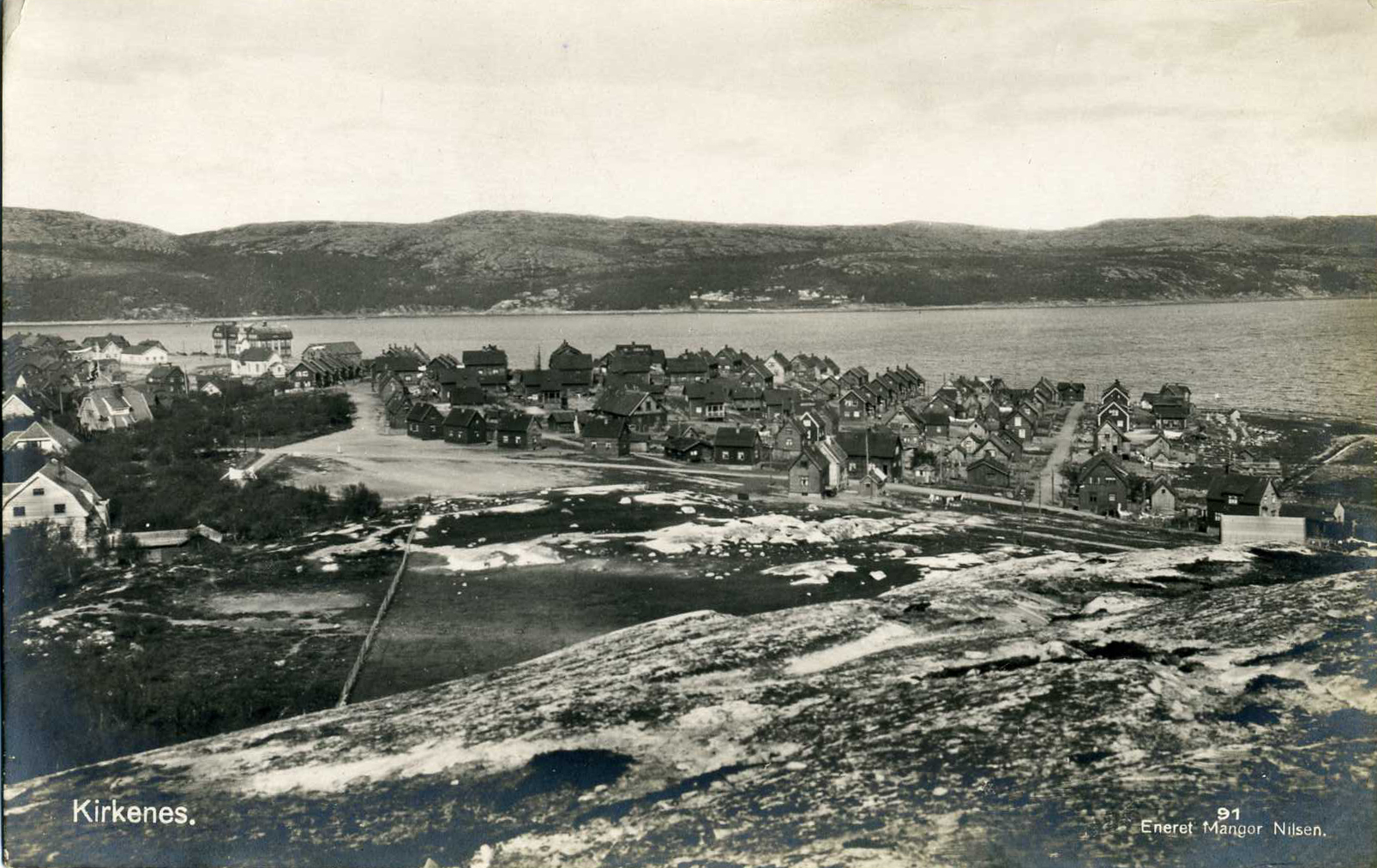 back